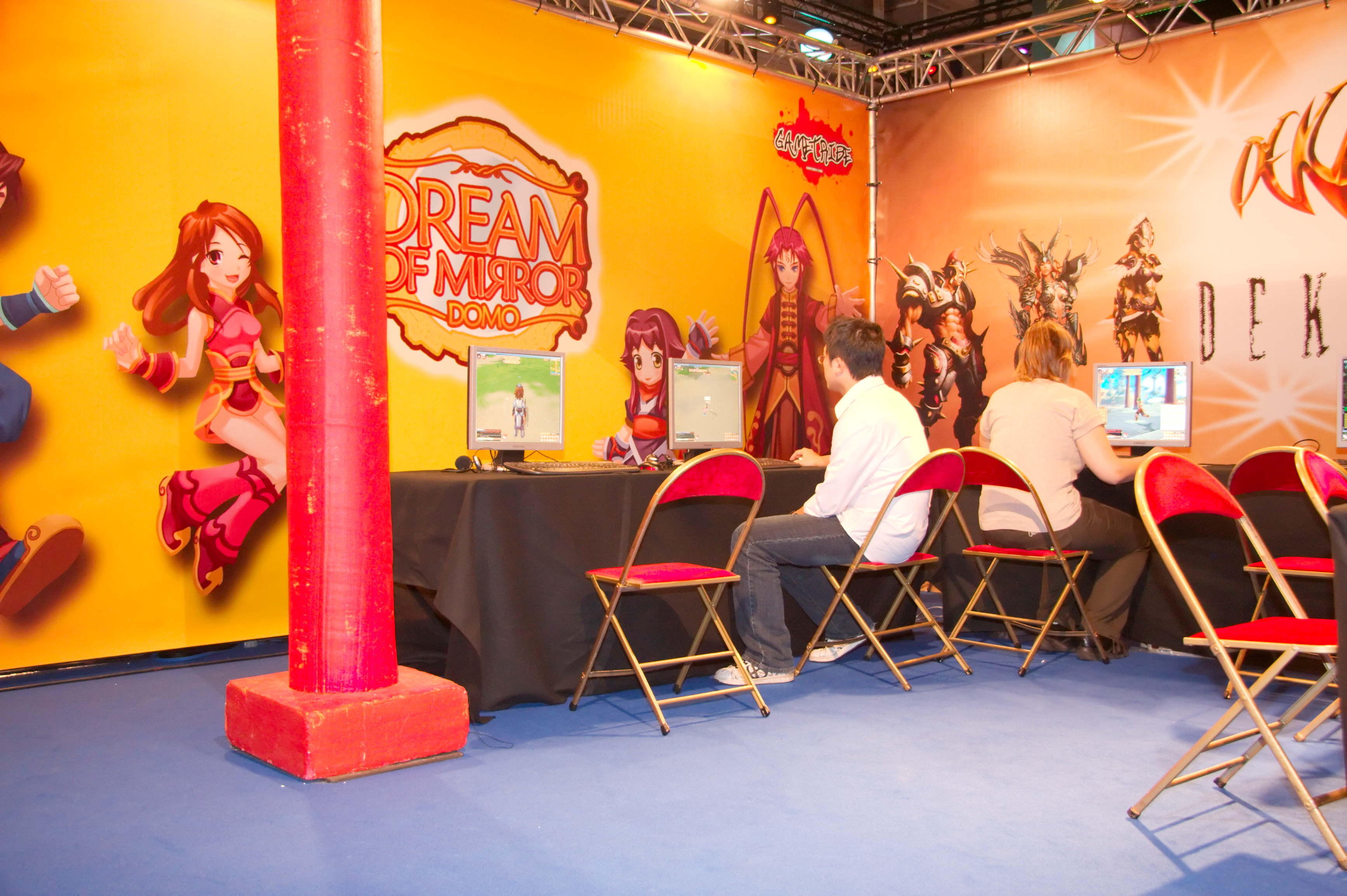 Dream of Mirror Online. Festival du jeu vidéo 2008 (video game festival) (Paris, France).